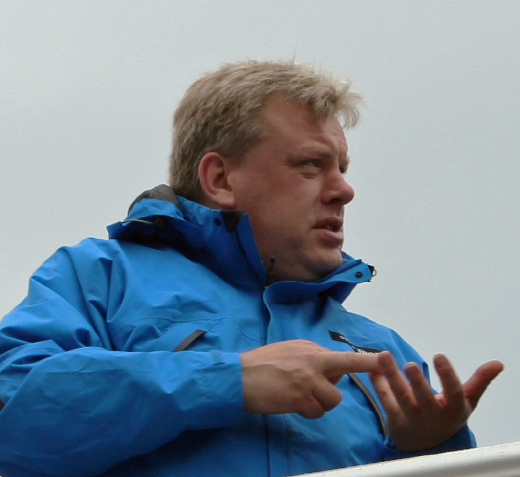 Jonas Kruse, a former rally driver and SVT's expert commentator, at Ring Knutstorp in 2012.